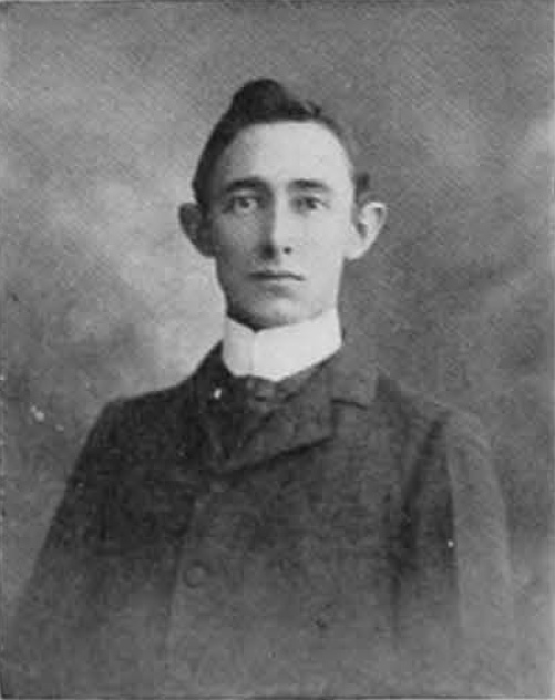 Photo of Eugene C. Barker from the 1899 University of Texas year book.